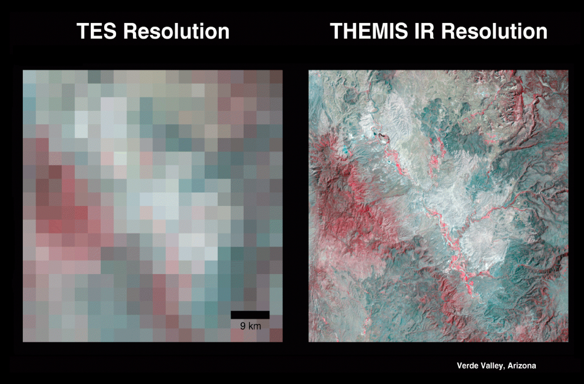 TES vs. THEMIS in the infrared spectrum - These images of Verde Valley, Arizona, simulate the resolution of infrared instruments on two NASA Mars spacecraft: TES on Mars Global Surveyor (left) and THEMIS on 2001 Mars Odyssey (right). The THEMIS instrument on the 2001 Mars Odyssey spacecraft uses 9 spectral bands to help detect minerals within the martian terrain. These spectral bands, similar to ranges of colors, can obtain the signatures (spectral "fingerprints") of particular types of geological materials. Minerals, such as carbonates, silicates, hydroxides, sulfates, hydrothermal silica, oxides and phosphates, all show up as different colors in the infrared spectrum. This multi-spectral method allows researchers to detect in particular the presence of minerals that form in water and to understand those minerals in their proper geological context. THEMIS' infrared capabilities have significantly improved the data from TES, a similar instrument on Mars Global Surveyor.